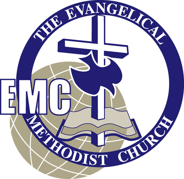 The official logo of the Evangelical Methodist Church Denomination.